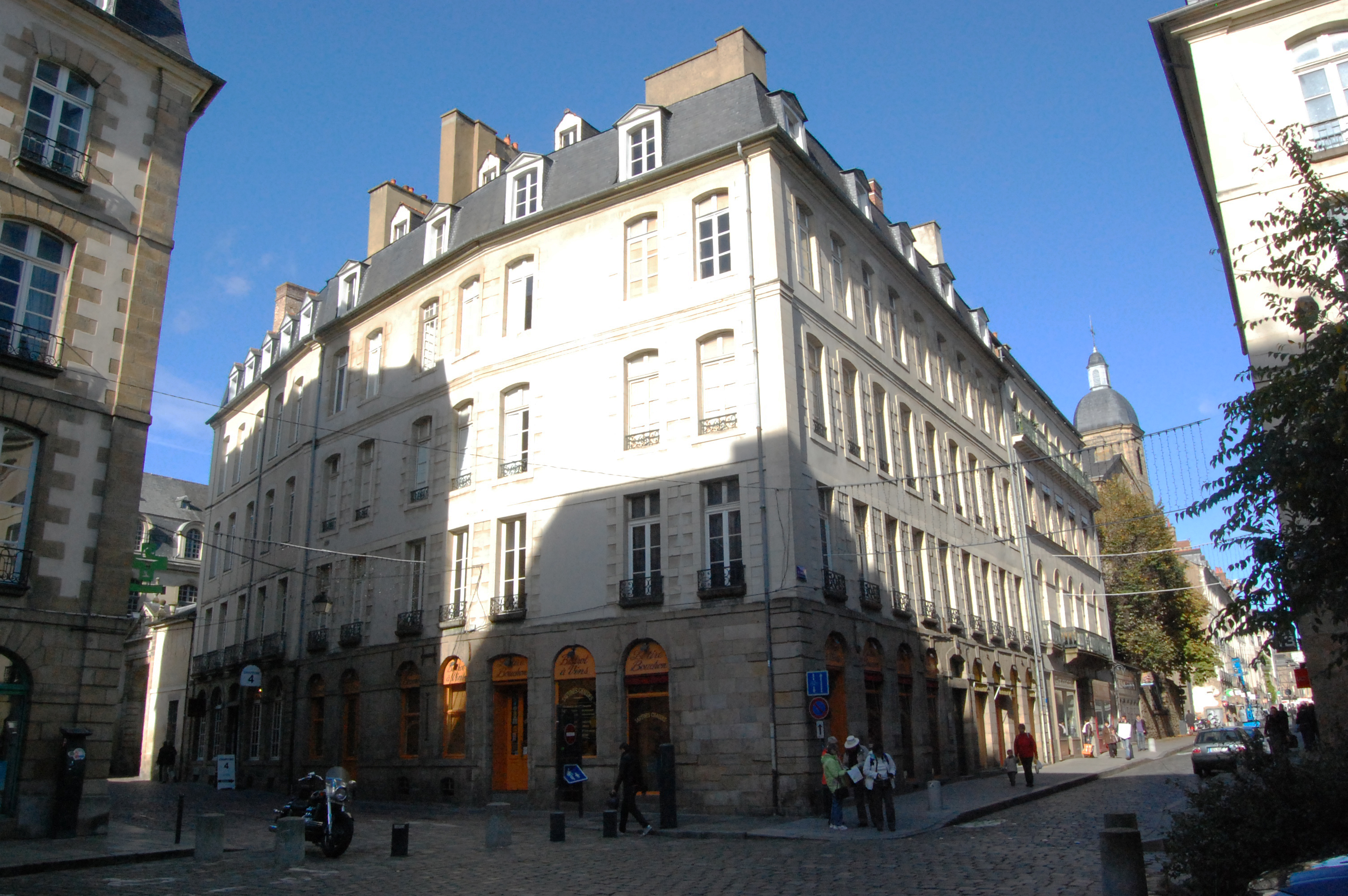 View from the Place du Calvaire, in Rennes. On the left street (rue du Chapitre), we can see the main gate of the Hôtel de Blossac ; on the right street (rue de Montfort), the trees from the garden.